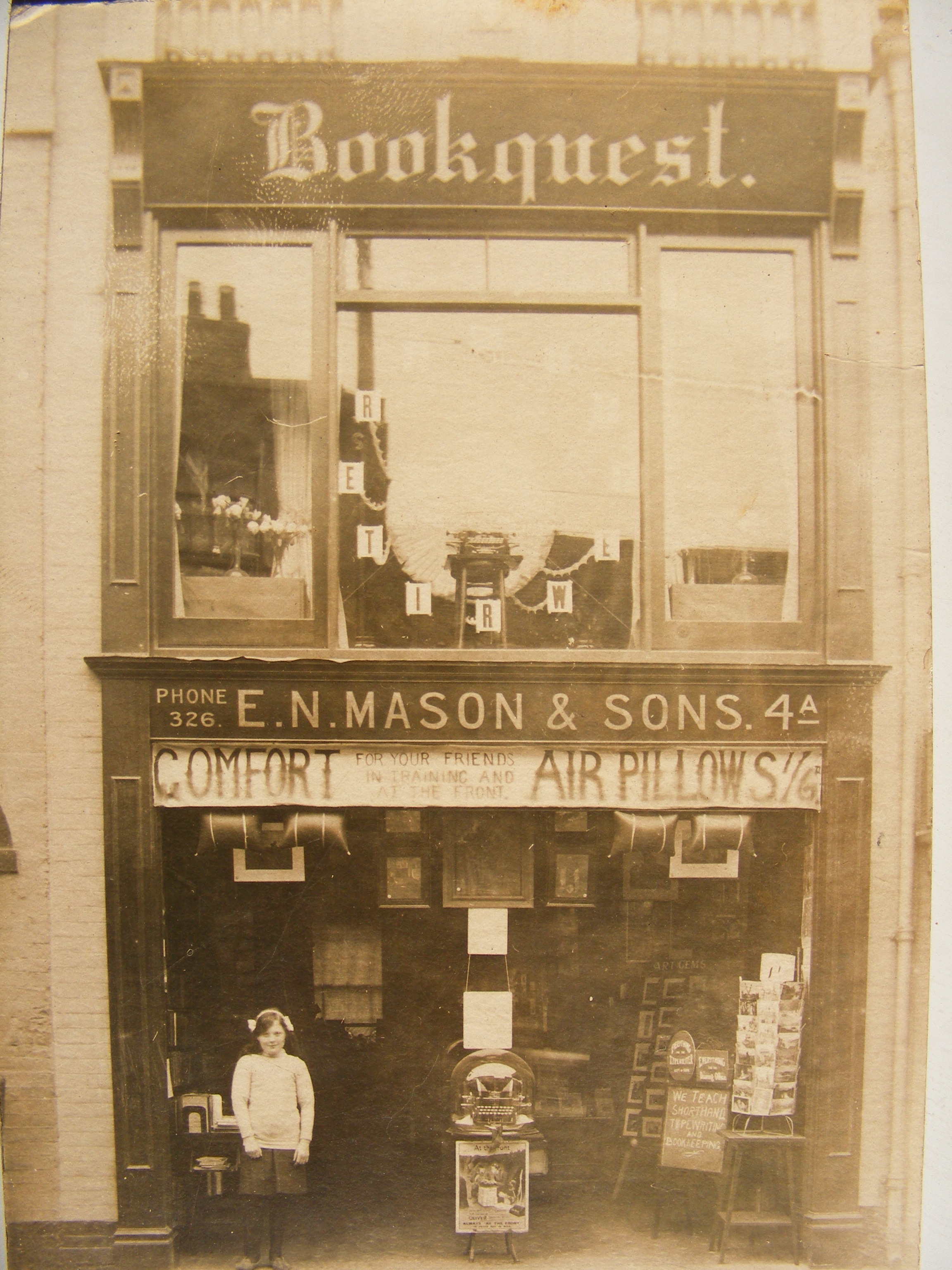 An historic photograph provided by historian, Andrew Philips of the Mason's business premises - photographer unknown